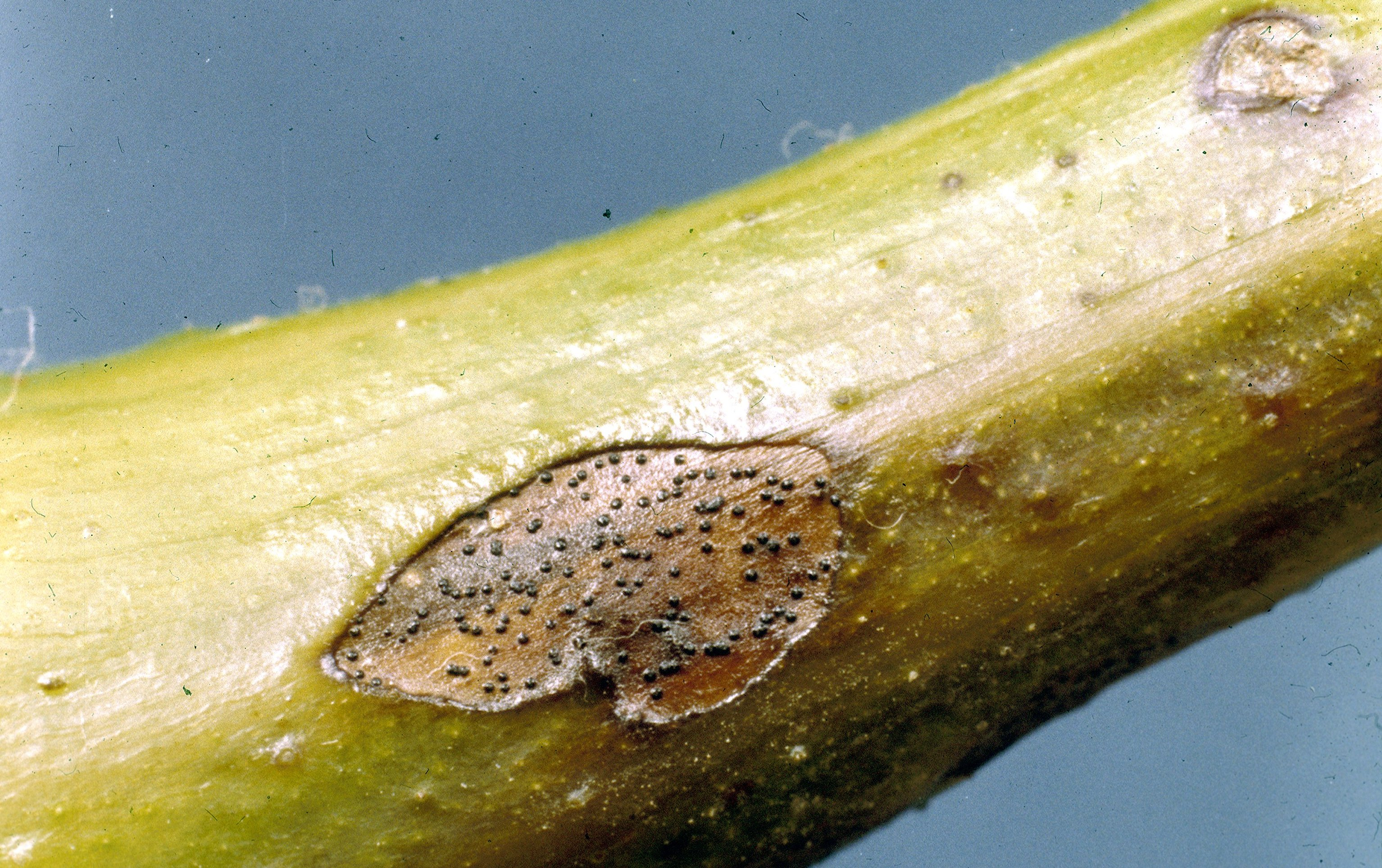 Symptoms of black rot (Guignardia bidwellii) on grape stem